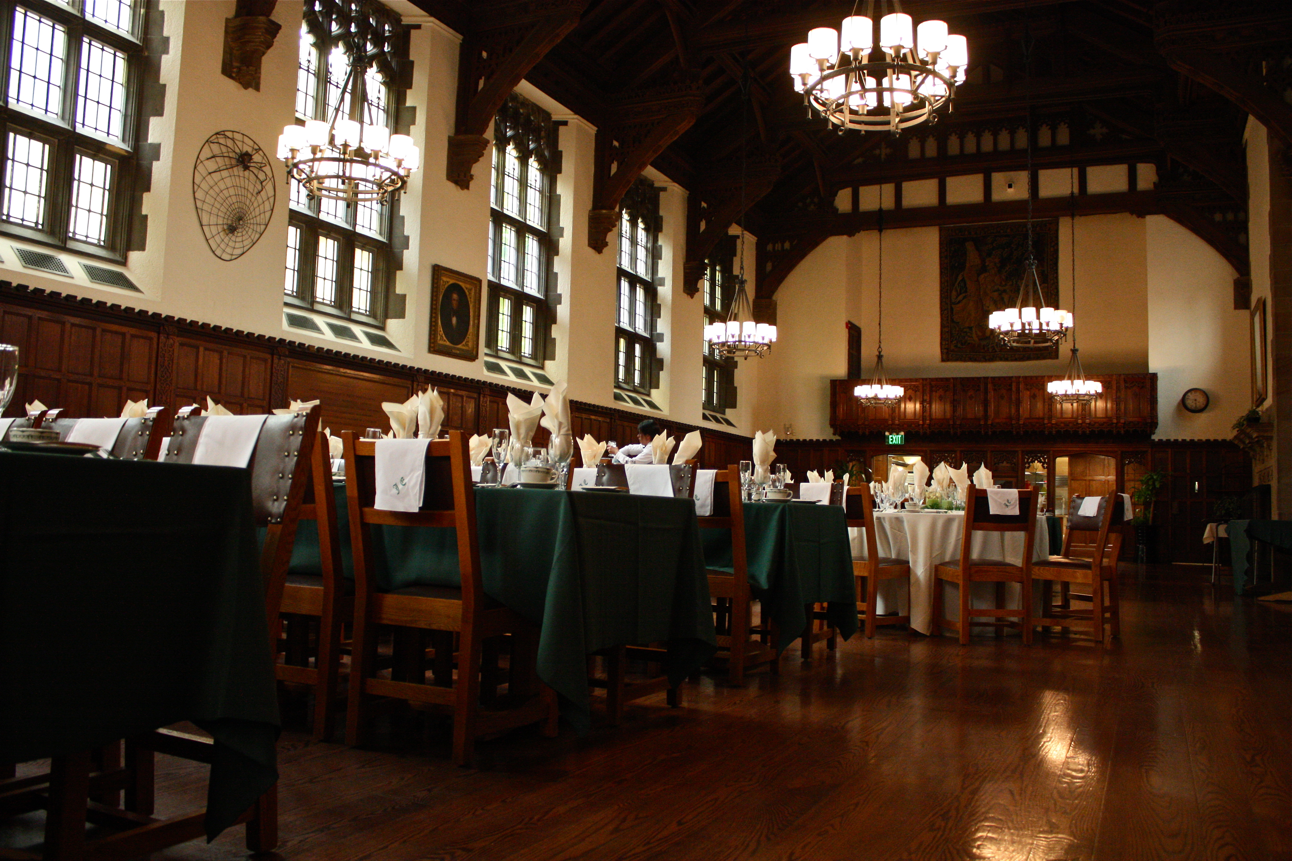 Special Event